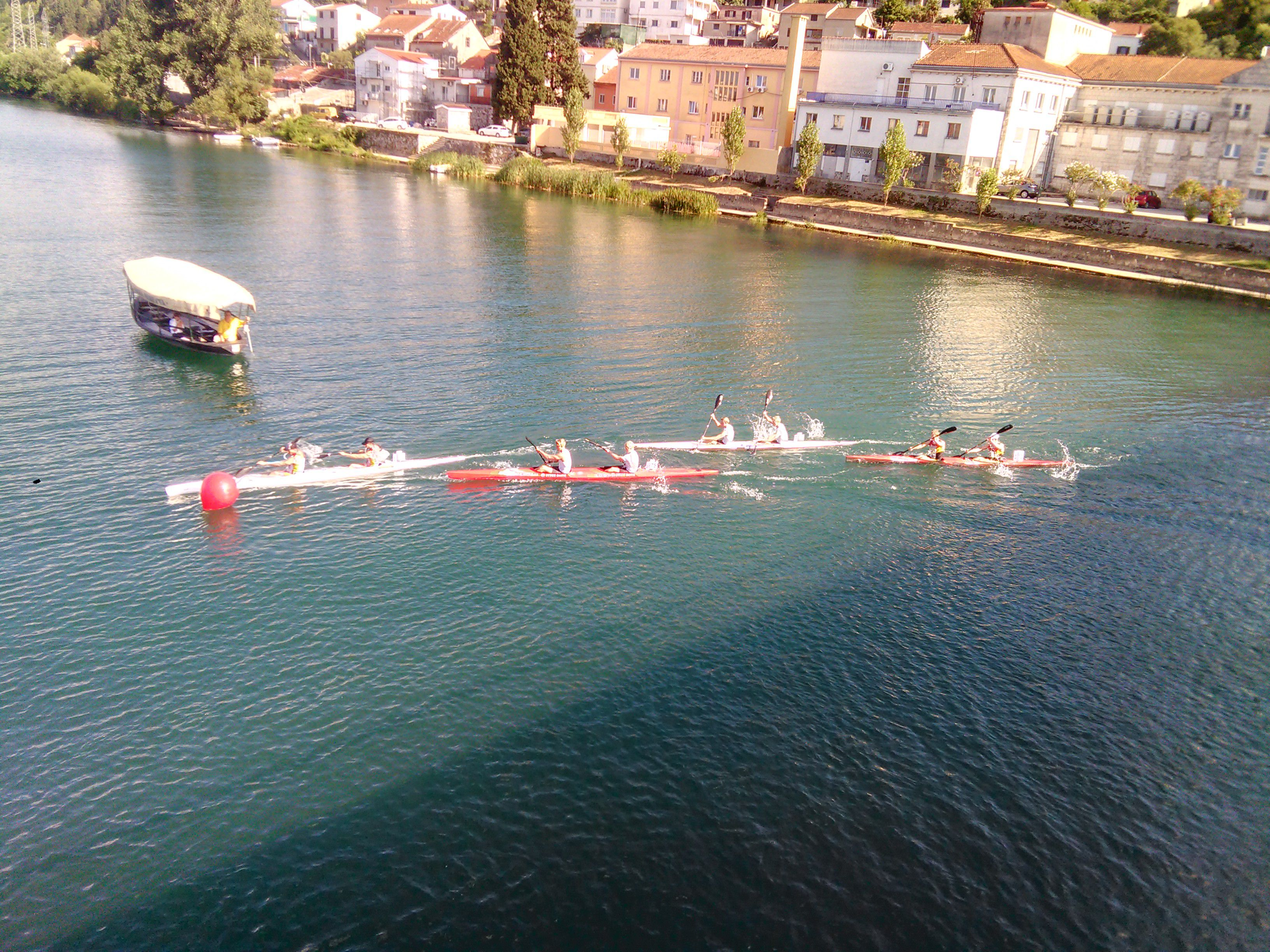 Canoe Marathon European Championships, Metkovic 2018, K2 men race